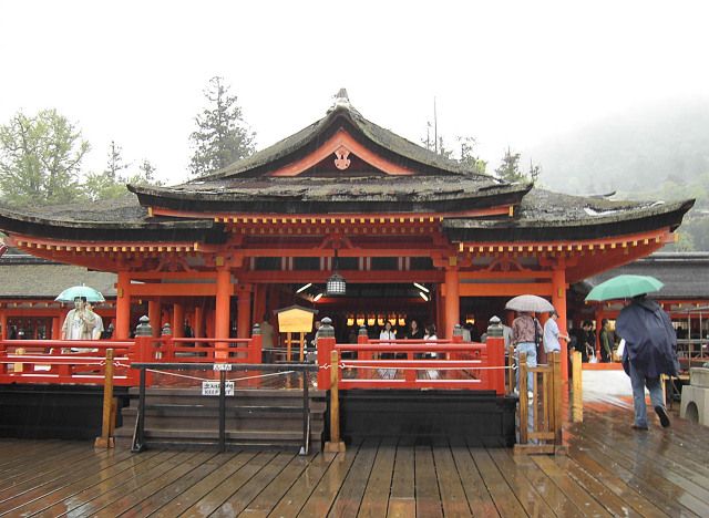 Outside of Itsukushima main shrine. Haraiden hall for ceremonies of purification.